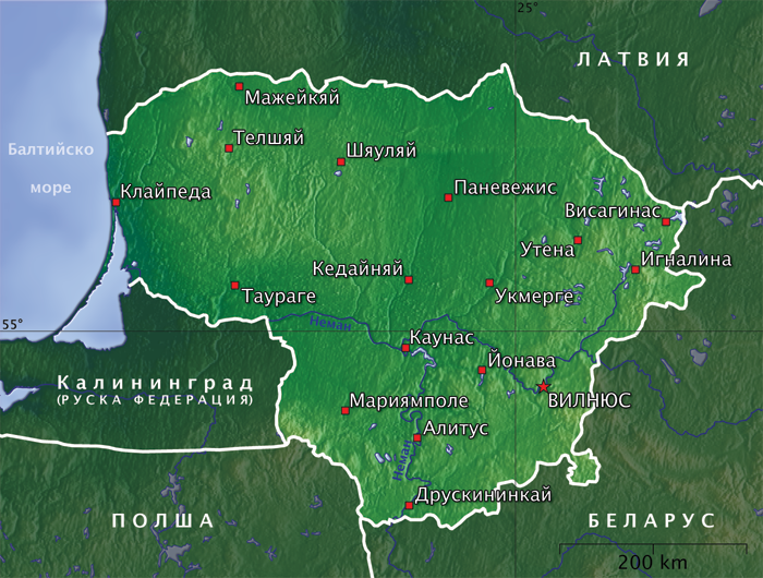 Map of Lithuania (Bulgarian) NOTE: it has errors - Elektrėnai labelled as Jonava